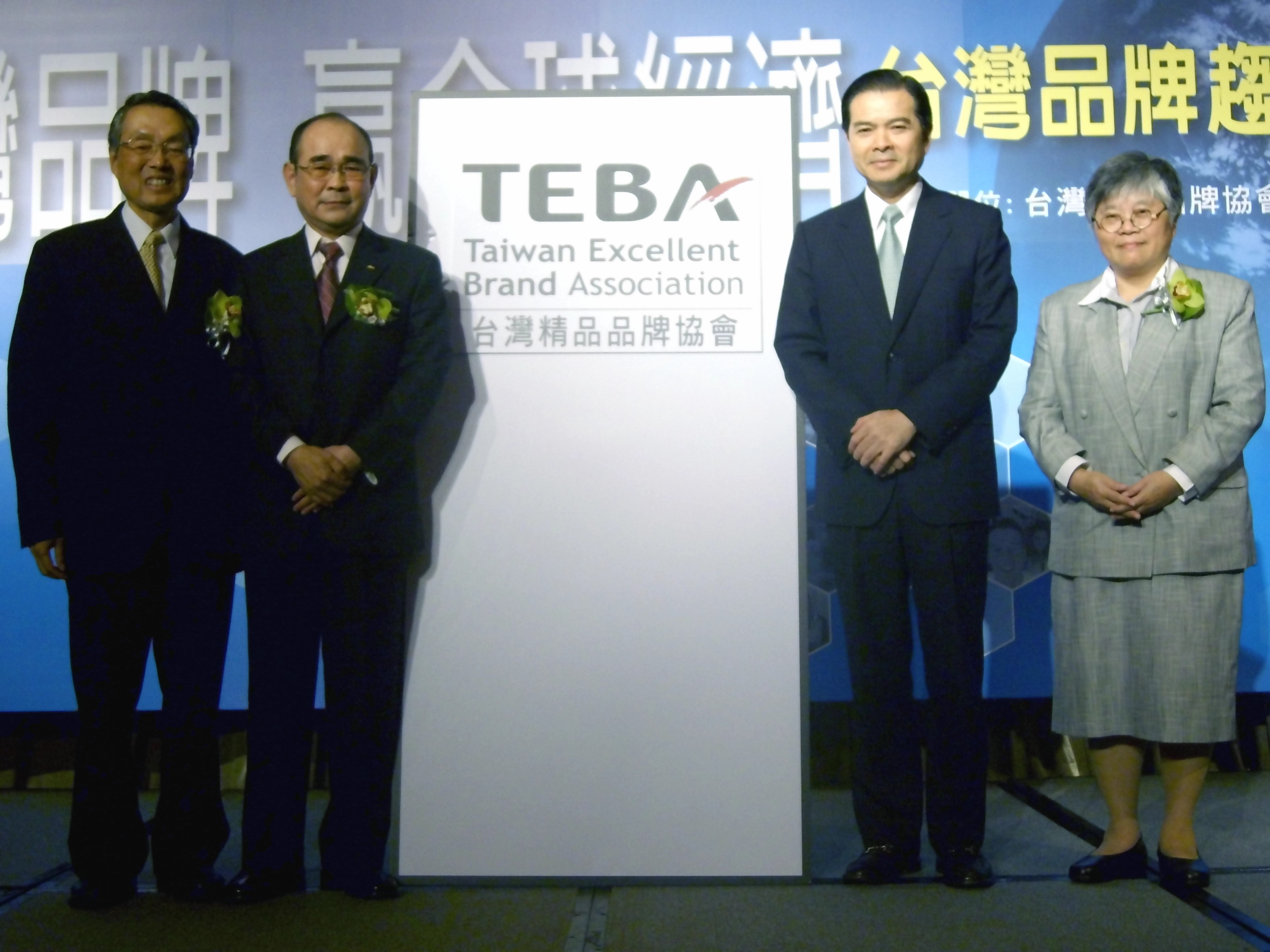 2007 Taiwan Brands' Trend Forum: Launch Ceremony of Taiwan Excellent Brand Association.